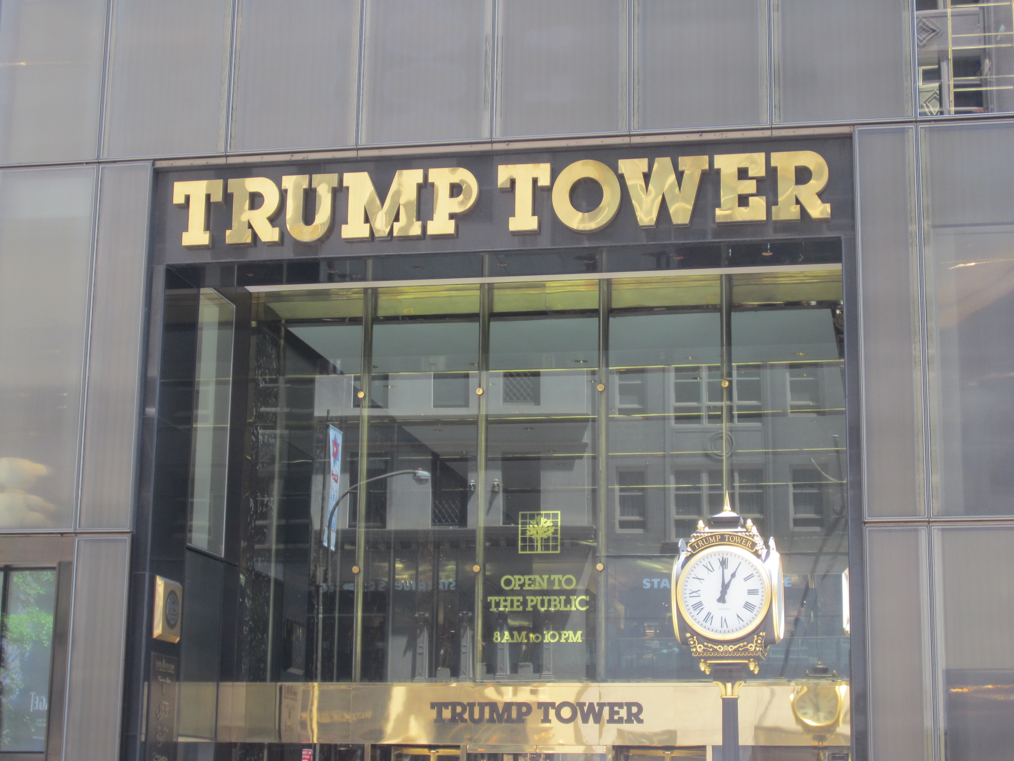 New York City (May 2014)